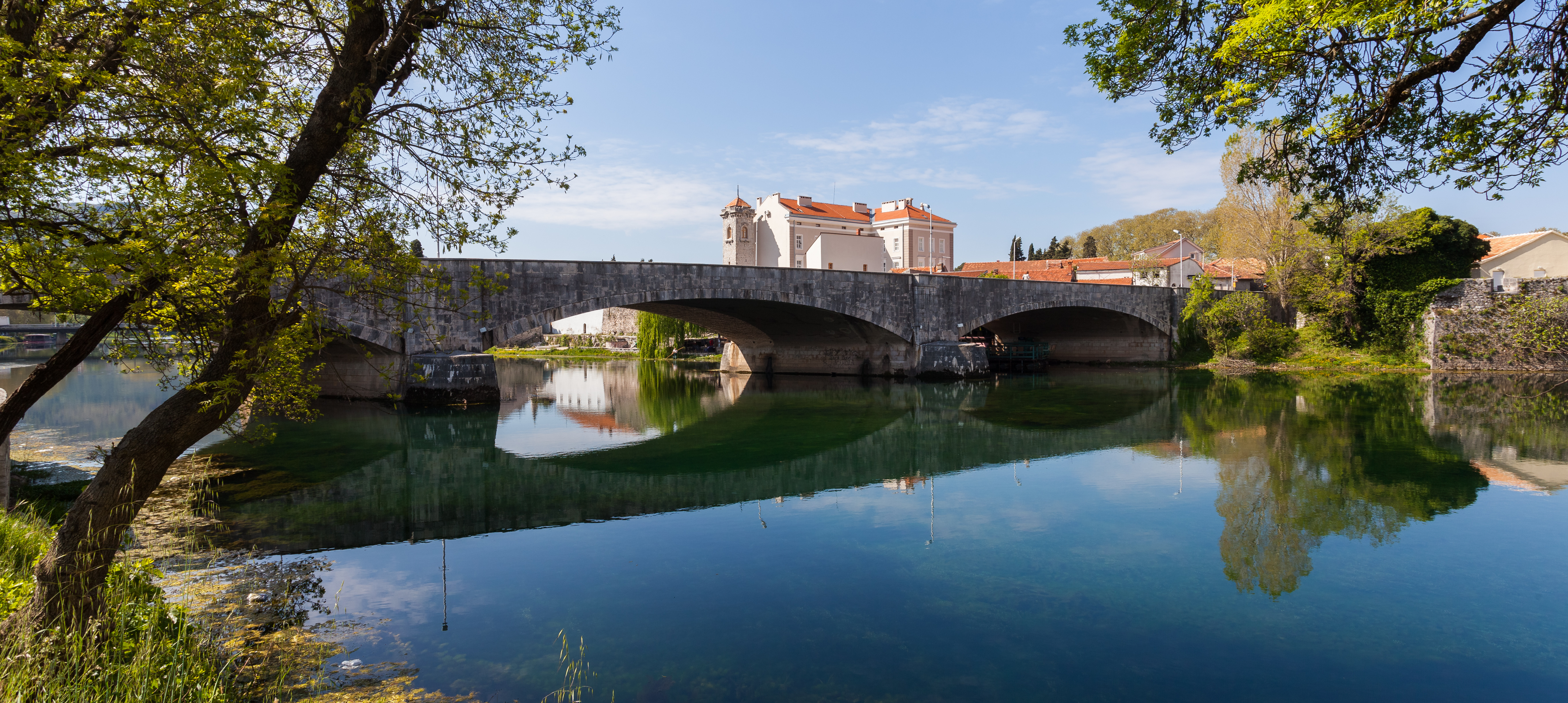 Trebisnjica river, Trebinje, Bosnia and Herzegovina